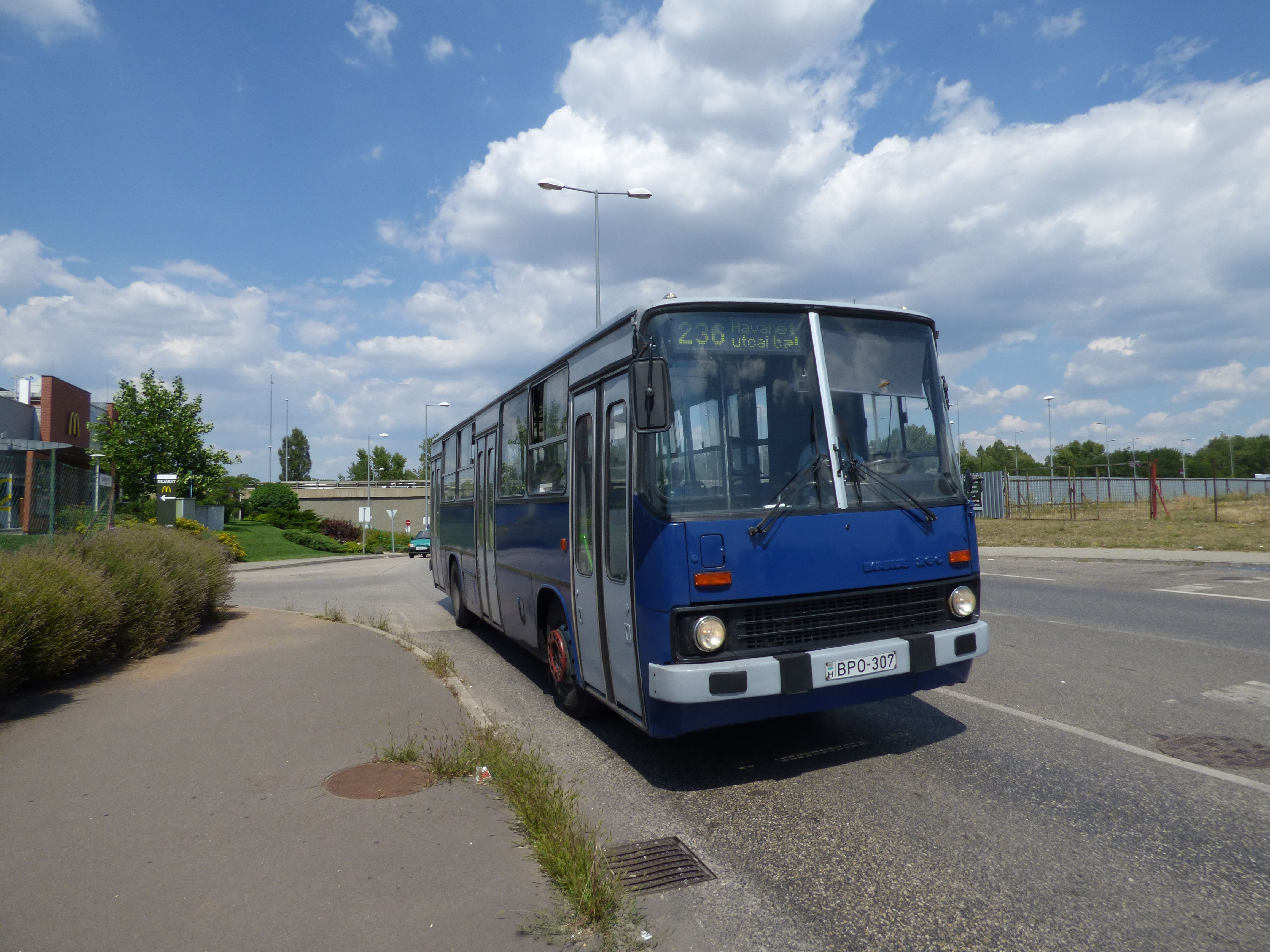 Ikarus 260 bus, Vecsés, bus line 236 (reg. BPO-307)